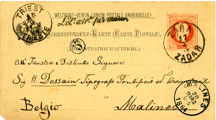 5 kreuzer KK Postal Card cancelled bilingual ZARA-ZADAR (Croatia) and TRIEST in 1884 with Postmark Let.arr. per mare